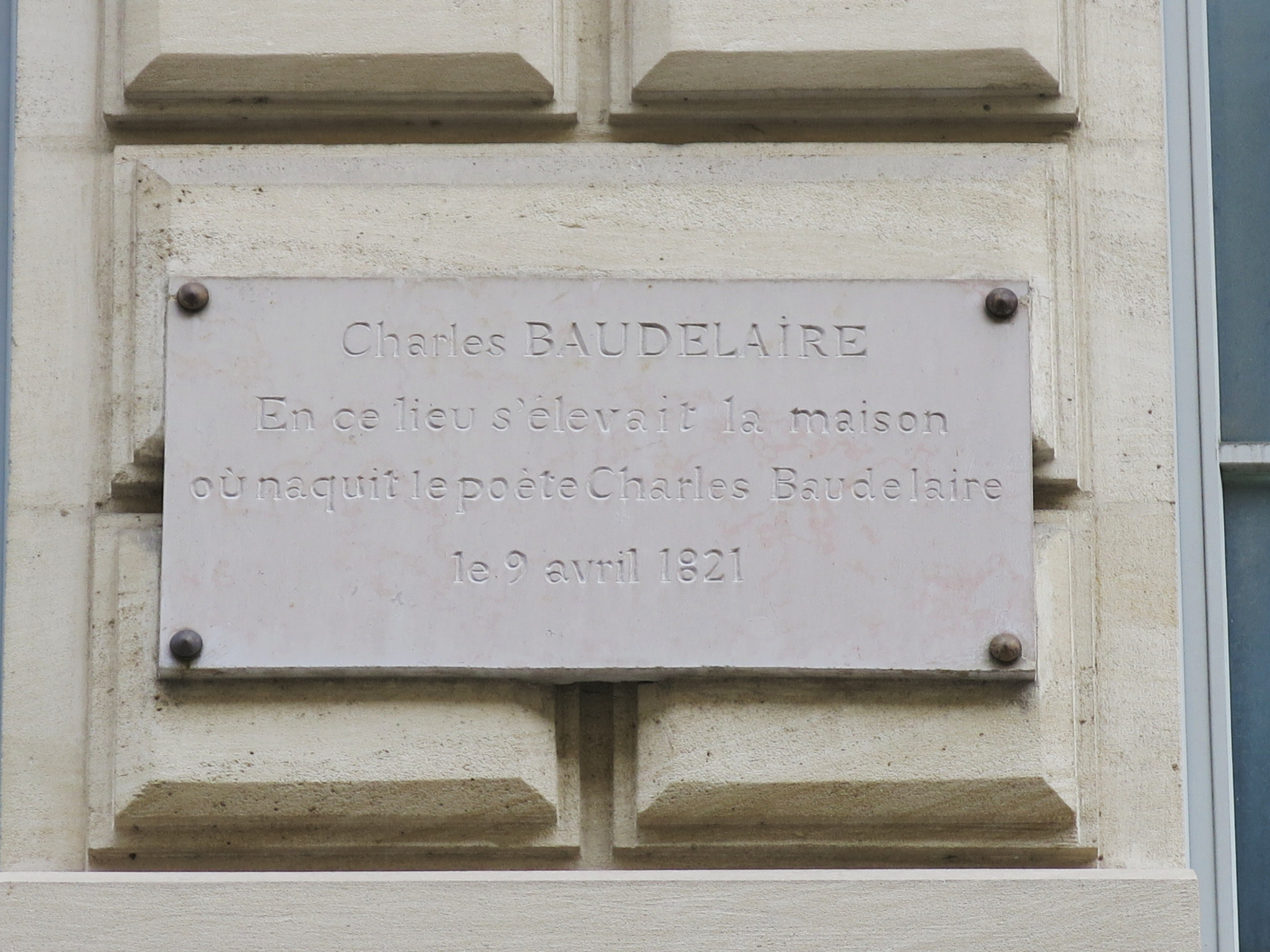 Plaque in the place of the house where was born the French poet Charles Baudelaire. 17 rue Hautefeuille, Paris 6th arr.